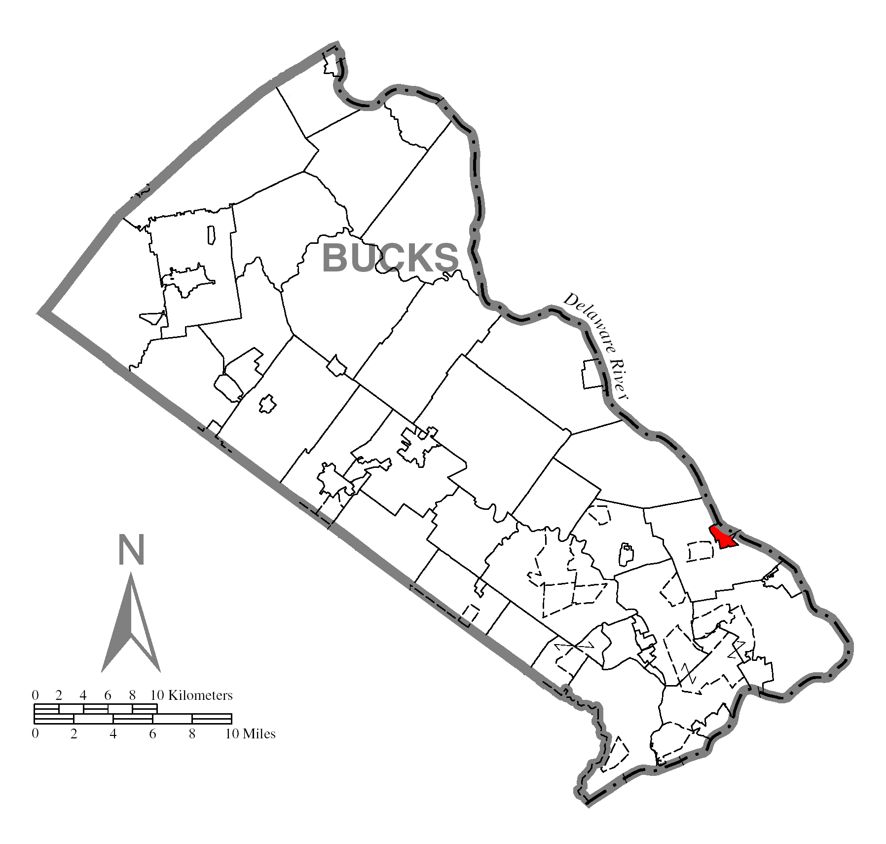 A map of Bucks County showing Yardley, Pennsylvania (alternate) highlighted on the map.